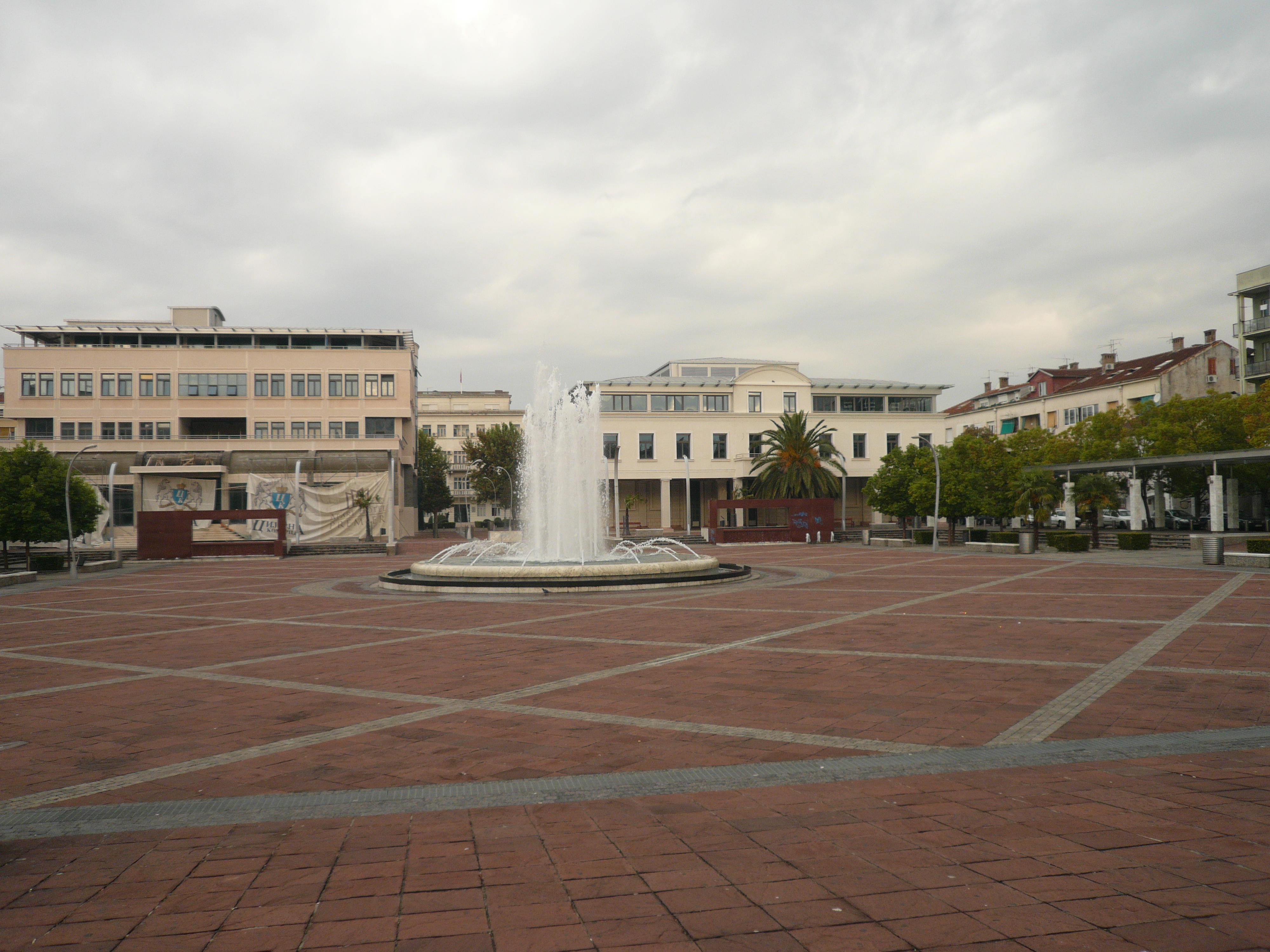 Trg republike (market place) in Podgorica, Montenegro